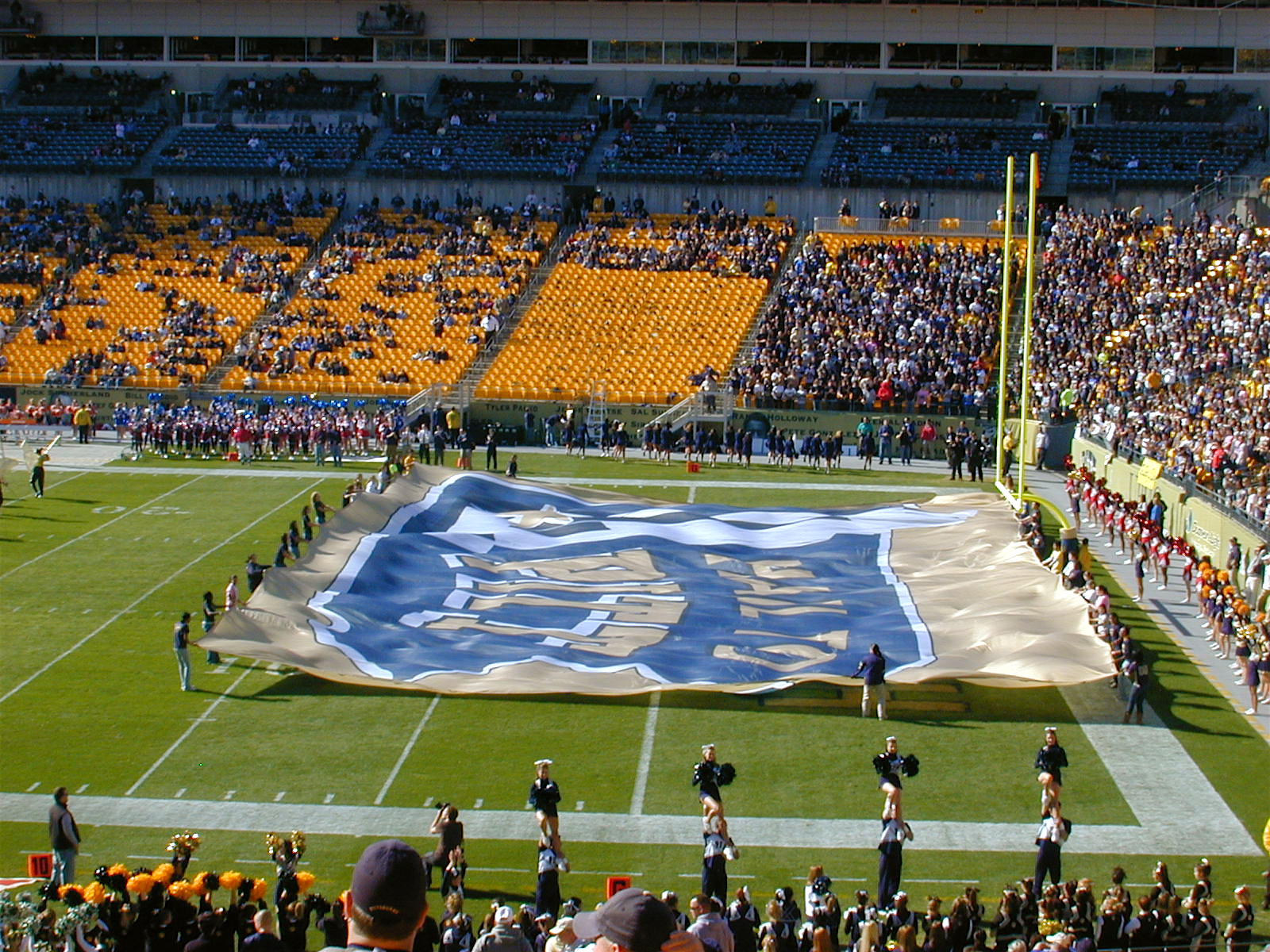 Panthers Colors